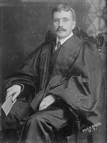 Frank H. Hiscock (1856 - 1946), an attorney and judge